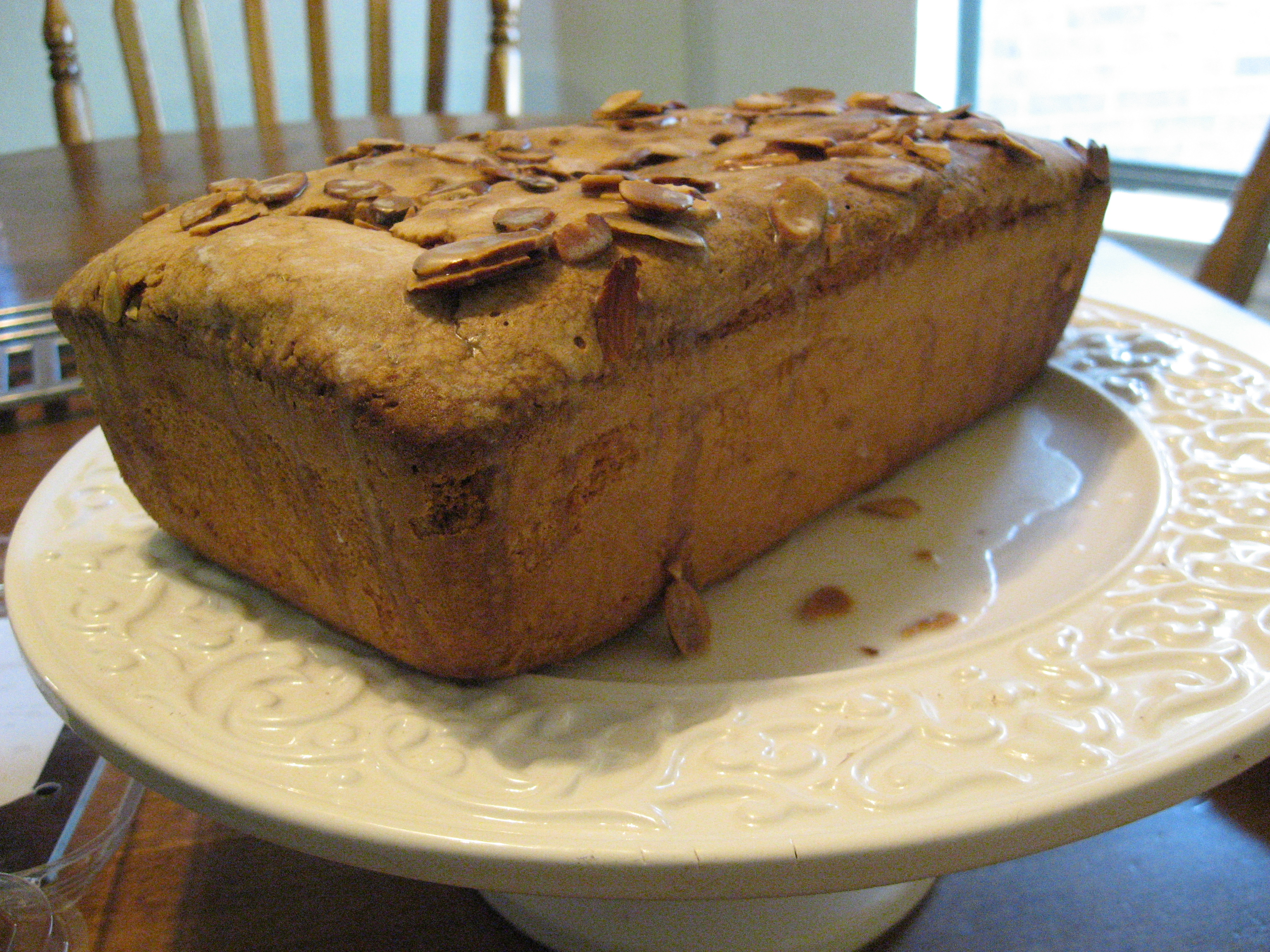 Almond pound cake, angled profile.